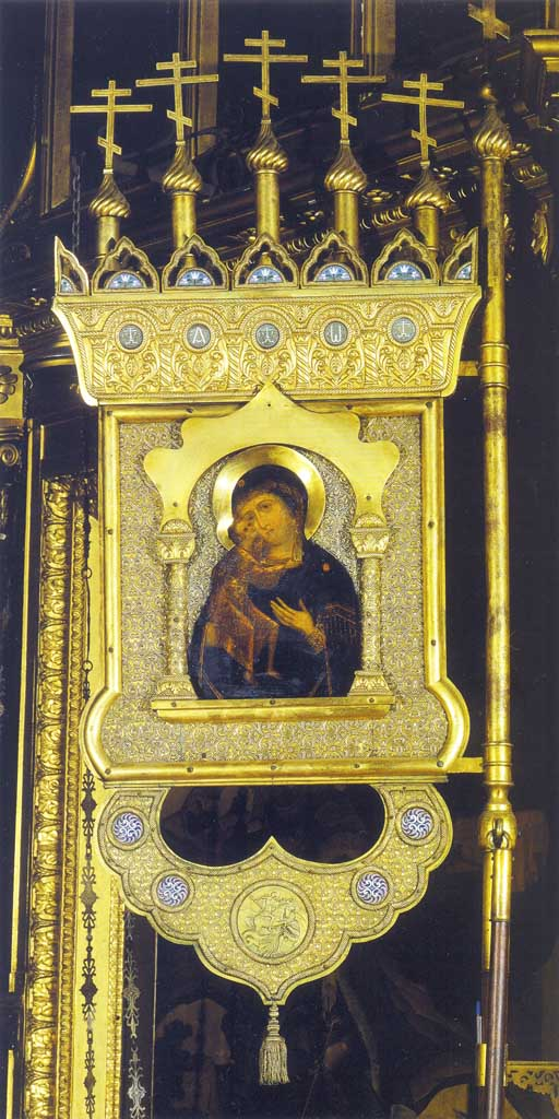 Processional banner: Mother of God of Theodore. Church of the Holy Martyr Haralampus. Moscow, 1916.